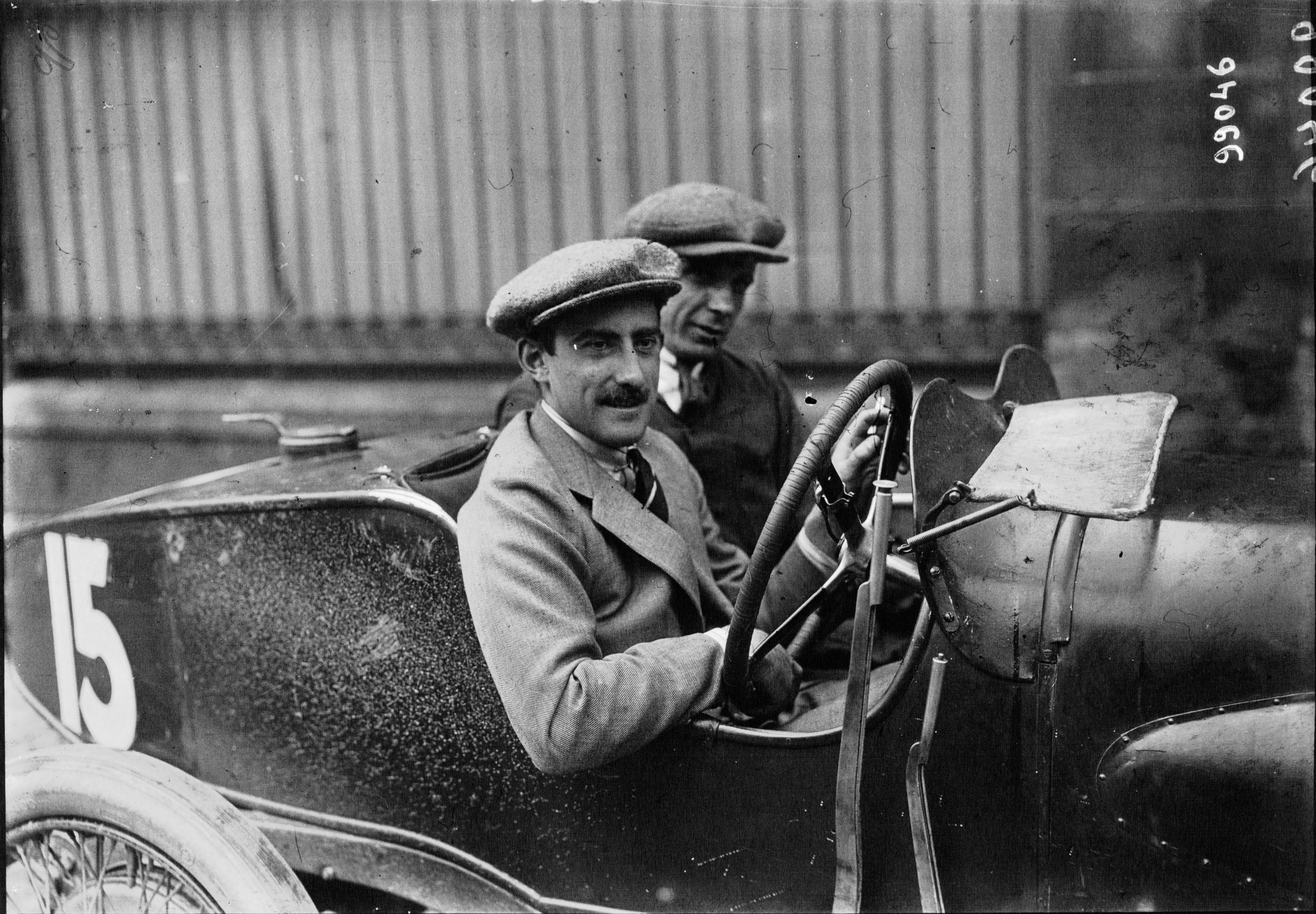 Louis Zborowski at the 1922 French Grand Prix